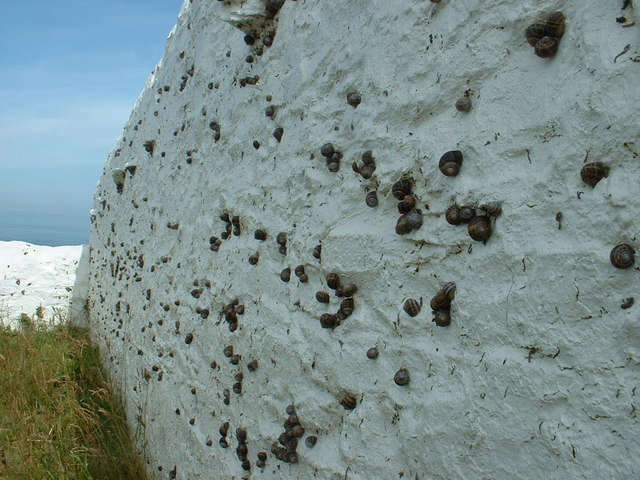 About 3 km from Cairngaan, Dumfries And Galloway, Great Britain – Snail sanctuary? This is the northern wall of the Mull of Galloway lighthouse compound, and it's covered with snails, as was the eastern wall. Clearly they like the shade, but what else attracts them? The colour? The taste? The sense of history? Or just being in a Nature Reserve? Helix aspersa, determined 04 June 2011 by Francisco Welter-Schultes